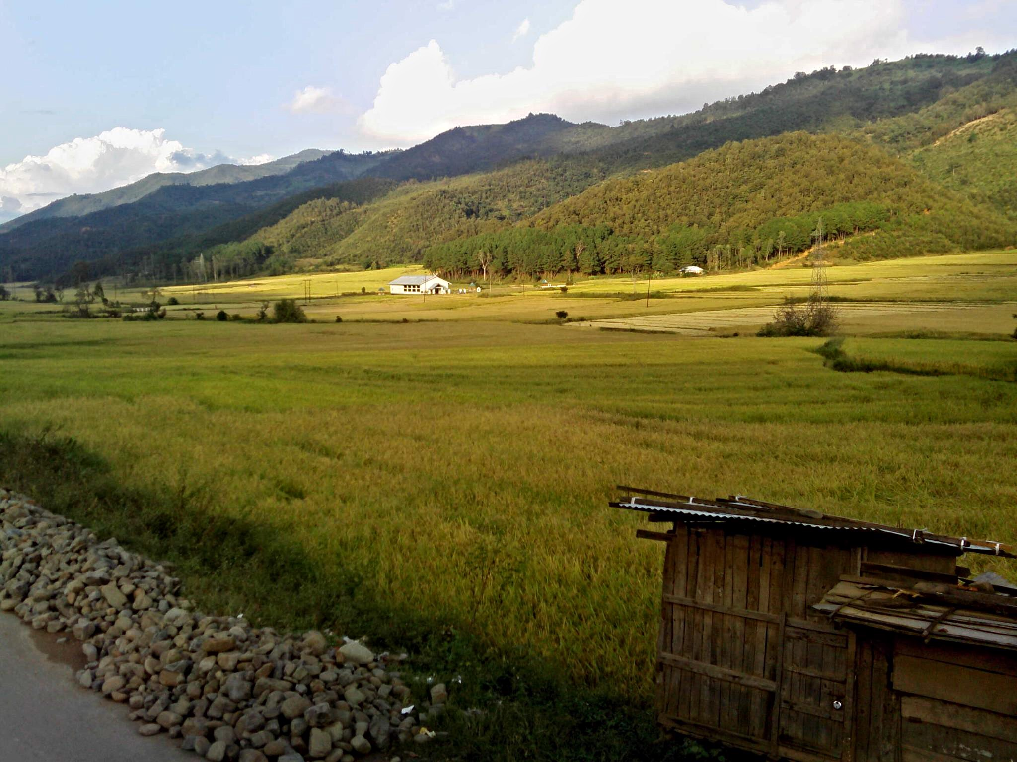 Paddy fields, Senapati District